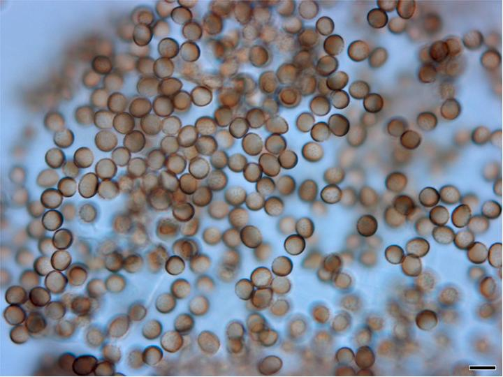 Loose smut spores Loose smut (Ustilago nuda) on Hordeum vulgare